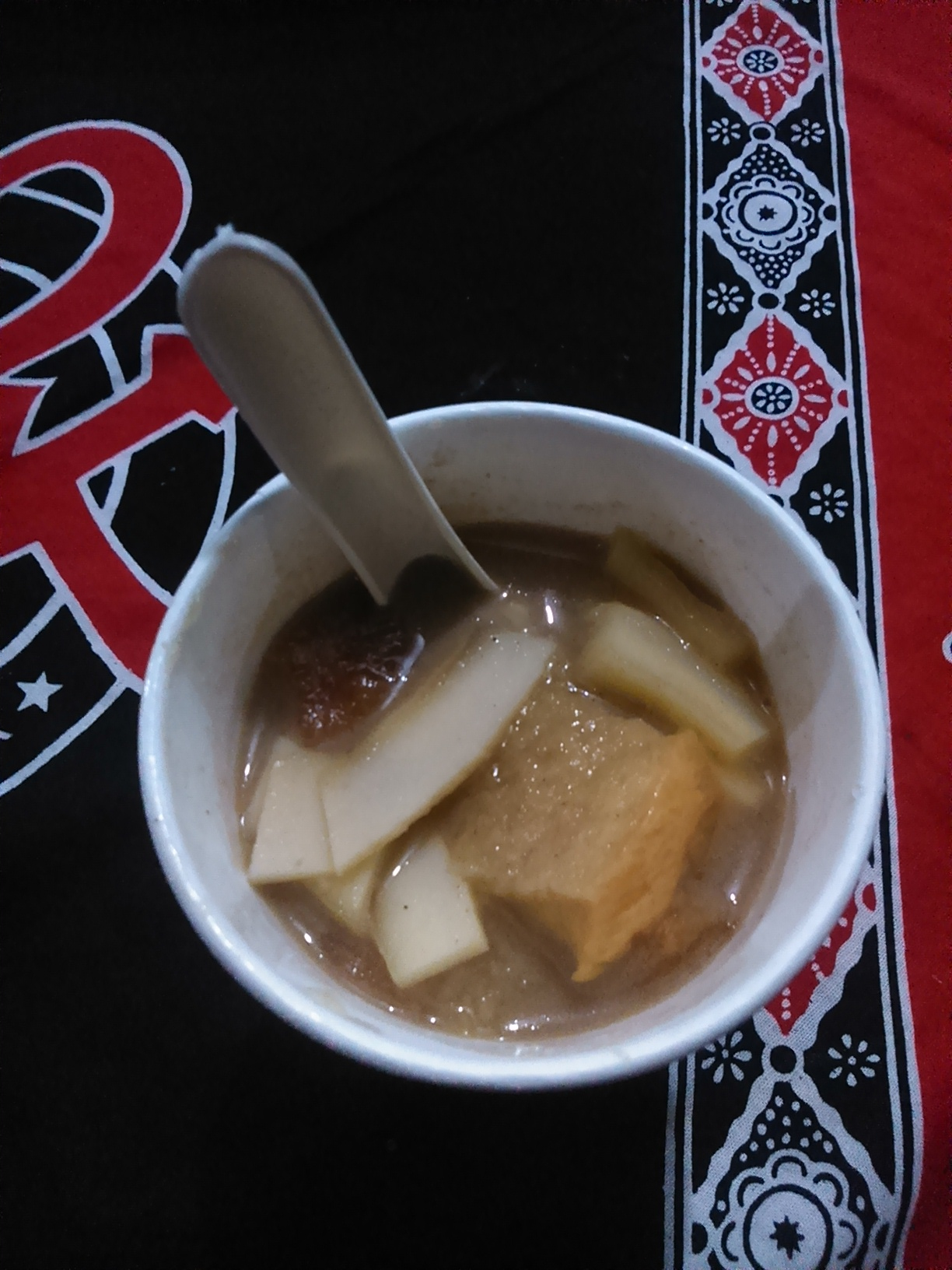 Bajigur, a refreshment drink from West Java, Indonesia. It is made from coconut milk, palm sugar, coffee, young coconut meat and crumbled bread loaf.